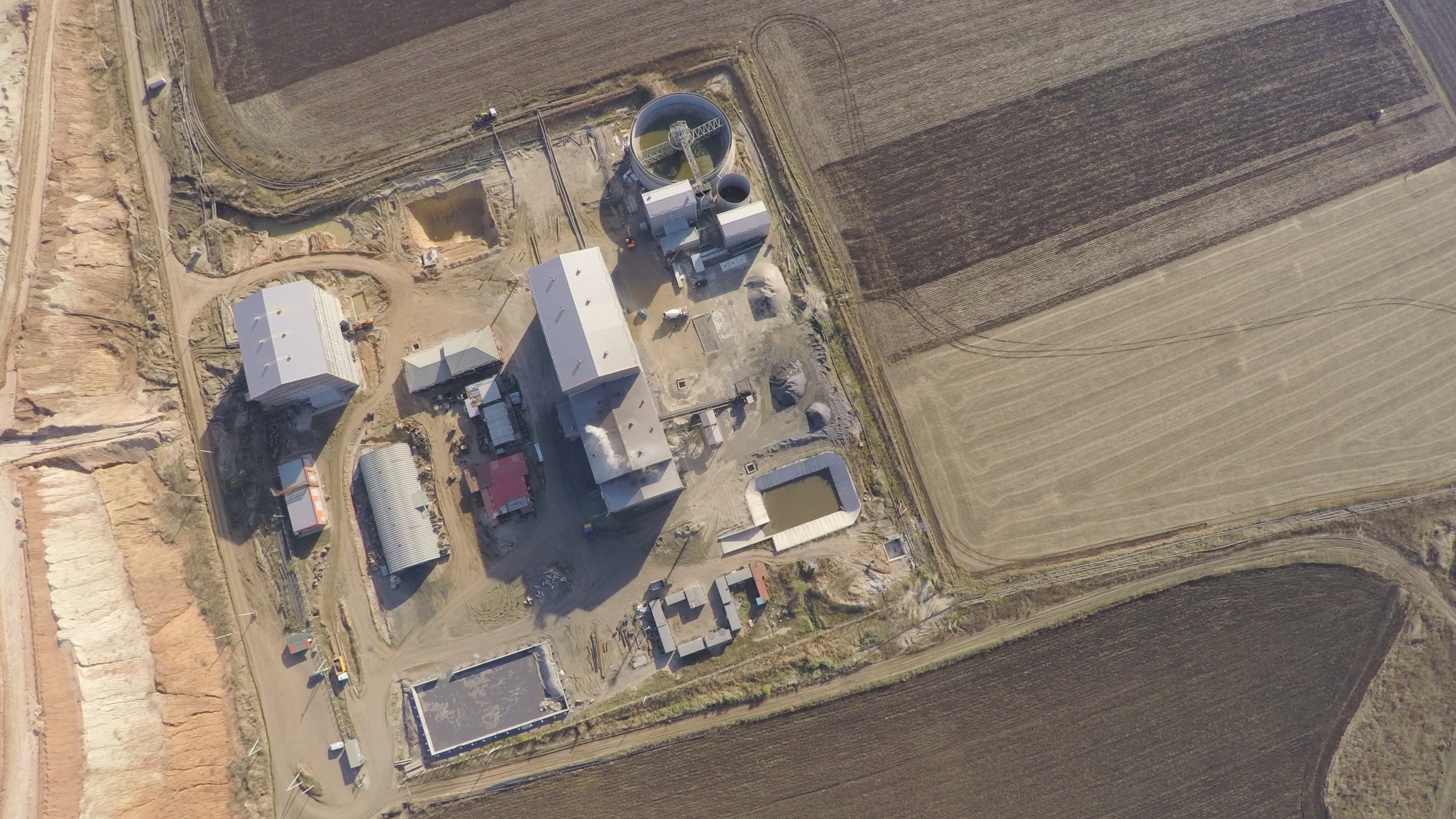 GOK Velty top view